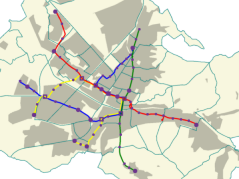 Tramway network of Freiburg im Breisgau, Germany, (new from 2006-04-29) red, yellow, green and blue: Tramway lines with stations (purple). grey: built-up area in the city, turquoise line: district boundaries.